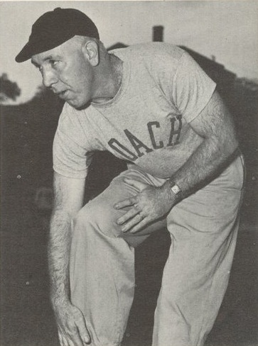 Pitt Panthers soccer and intramurals coach Leo Bemis